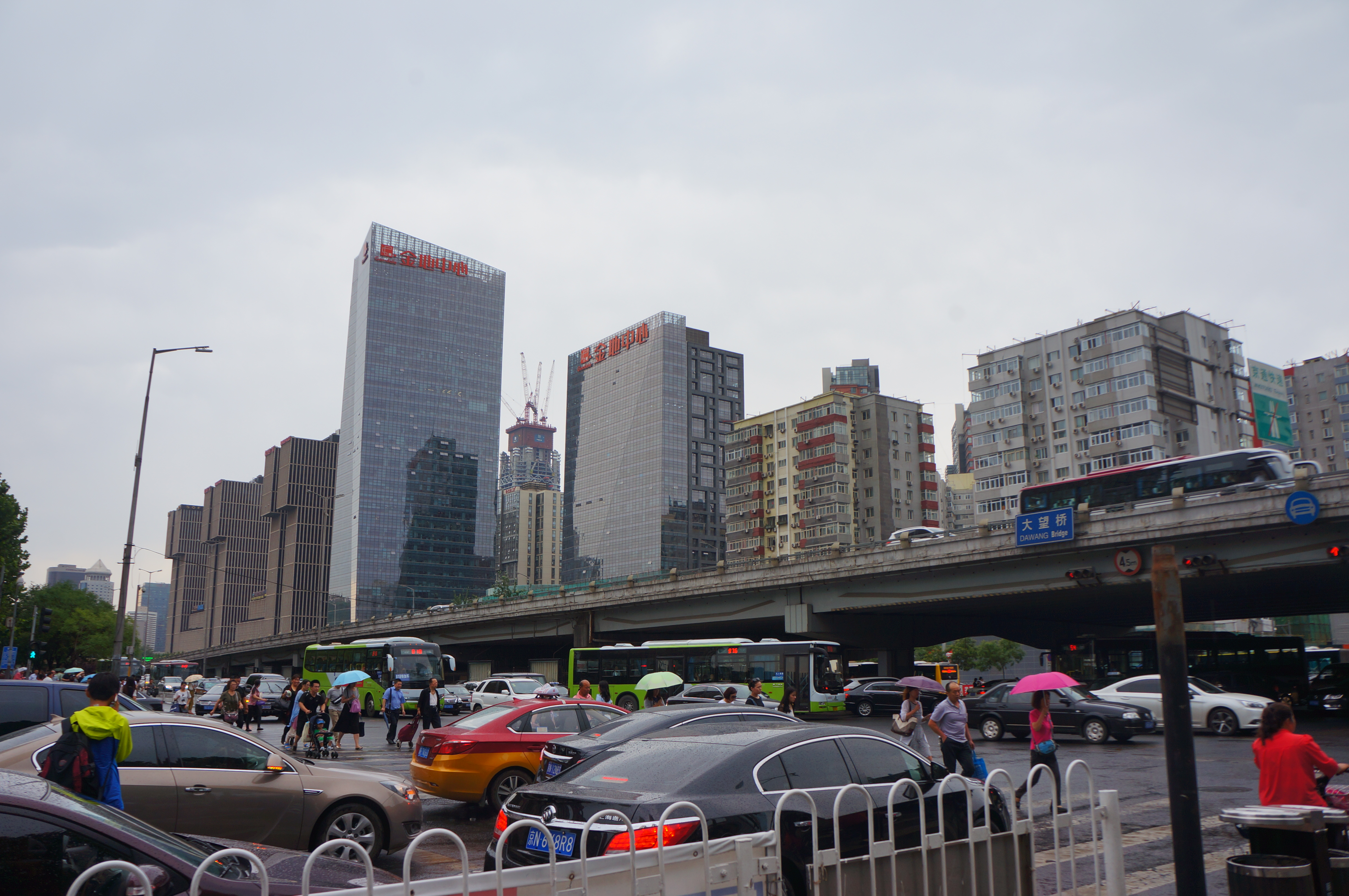 201606 Dawang Bridge